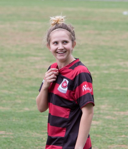 Linda O'Neill takes the field for Western Sydney Wanderers FC W-League team